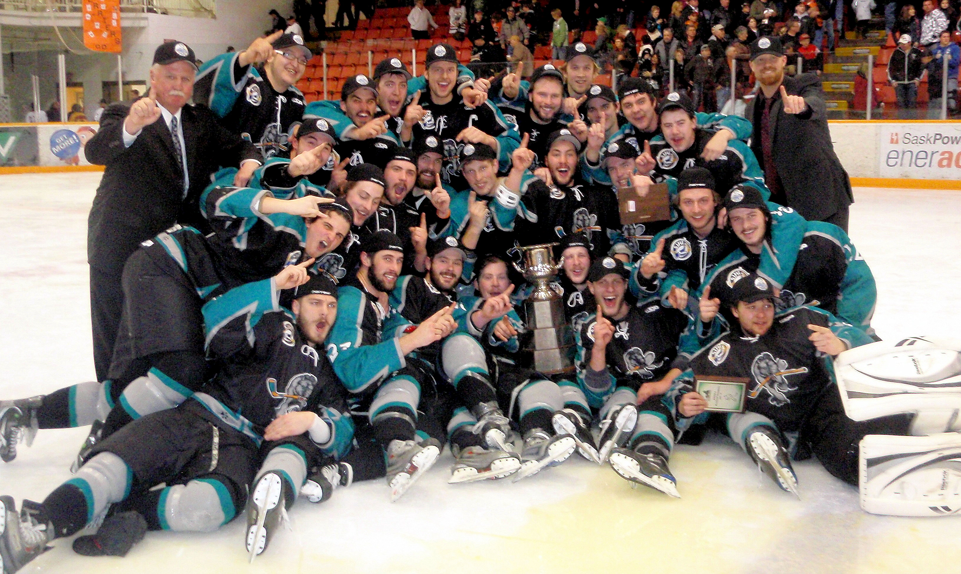 Photo of the 2010 SJHL Credit Union Cup - La Ronge Ice Wolves